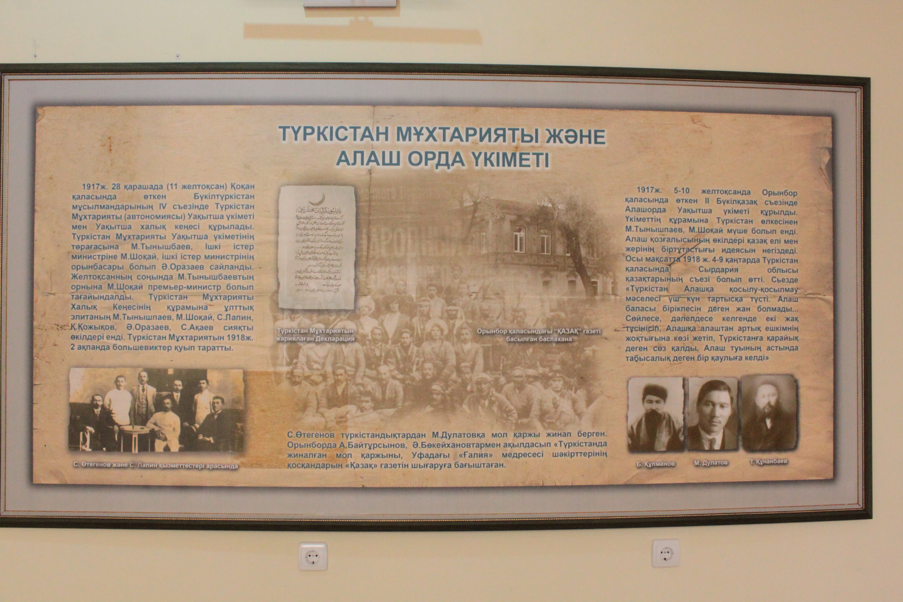 Алаш орда